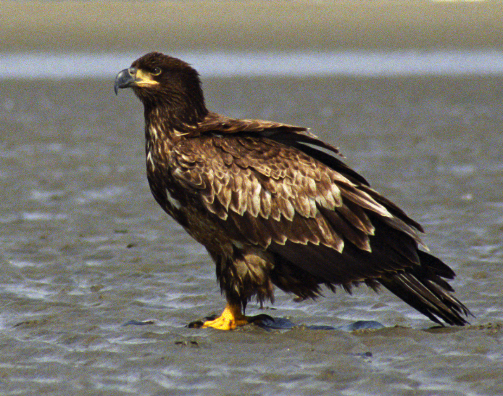 Juvenile Bald Eagle on Sand